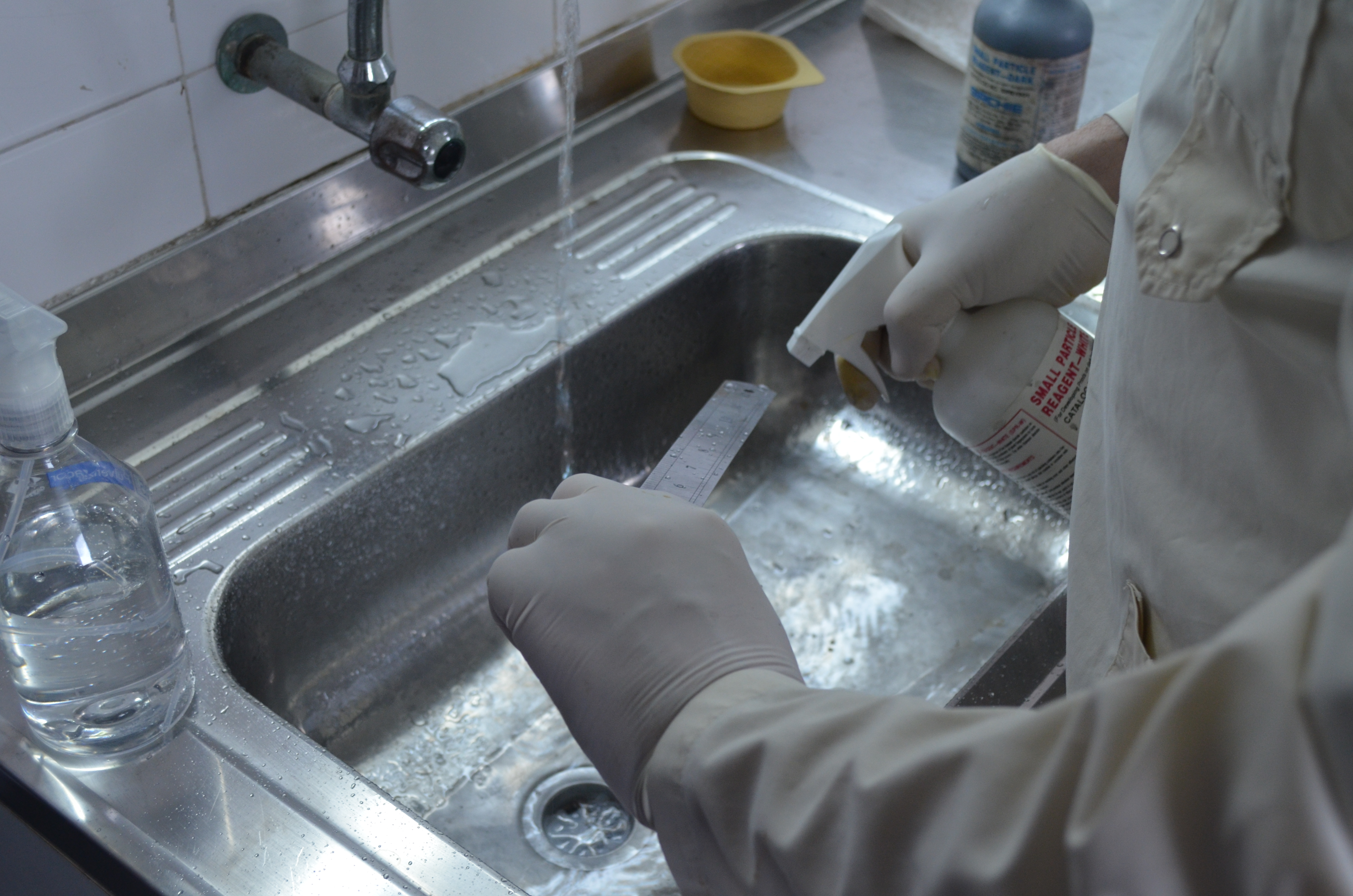 Student to fingerprint expert revealing latent fingerprints on wet surfaces using molybdenum disulfide in . Photografy taken in the chemical laboratory of IUPFA.